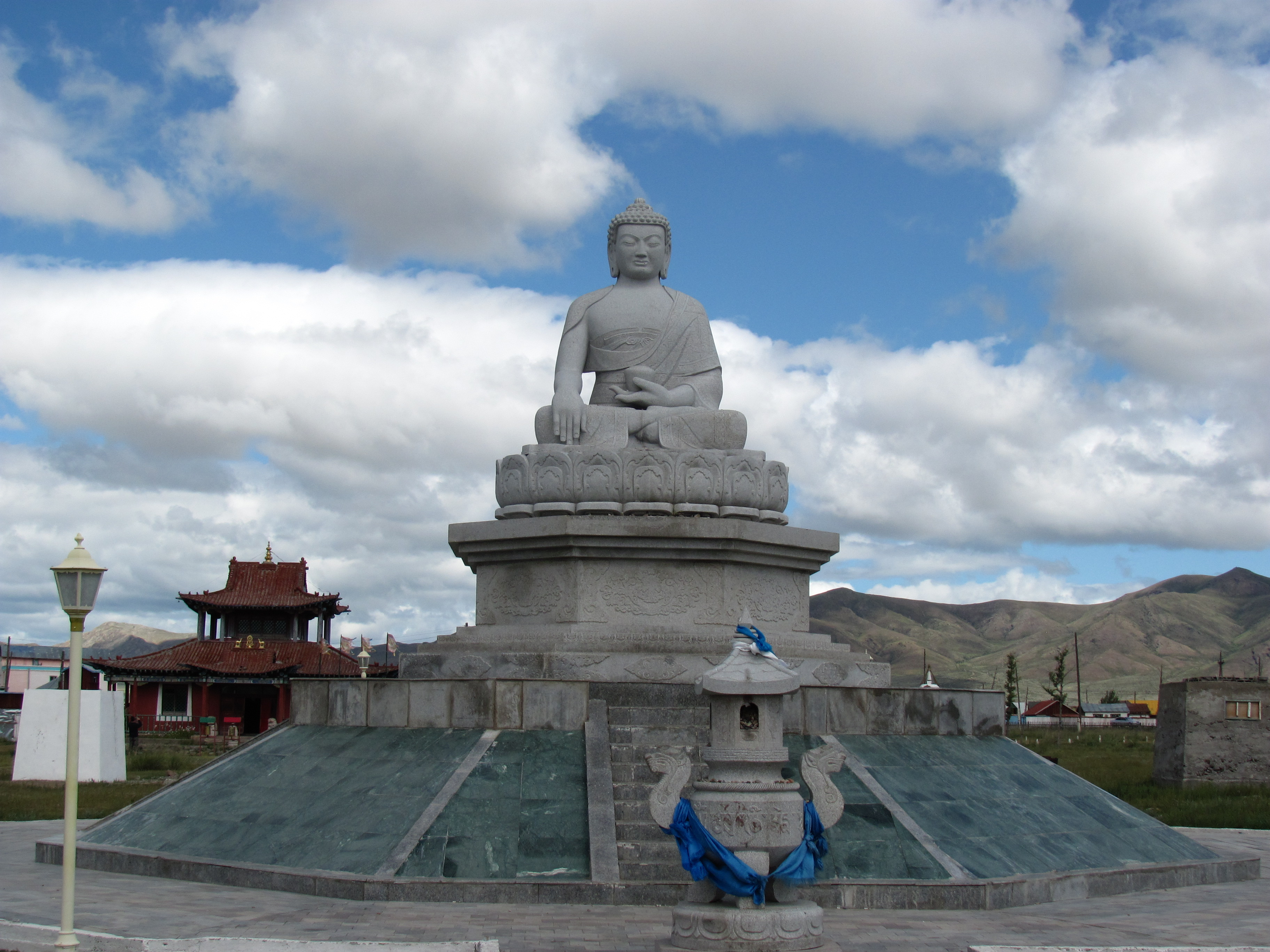 Buddha Statue in front of Danzandarjaa Monastery, Mörön, Mongolia.